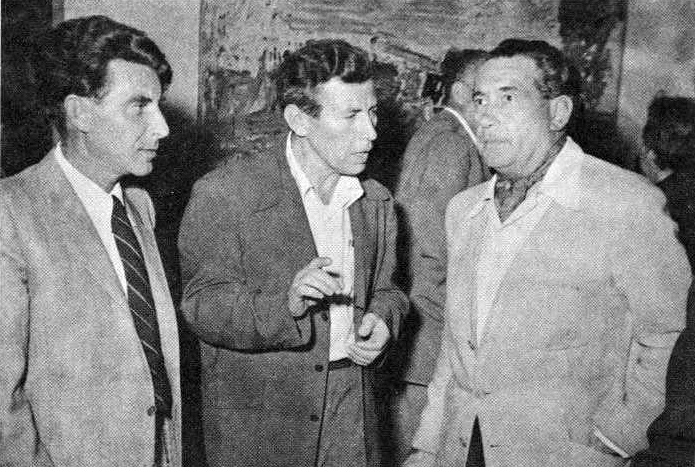 opening of the 5th Ofakim Hadasim exhibition at the Tel Aviv Museum, November 1953. from the left: Jacob Wexler, Mordecai Arieli, Aharon Kahana. at the back Joseph Zaritsky painting Havay bakiboz (1951).